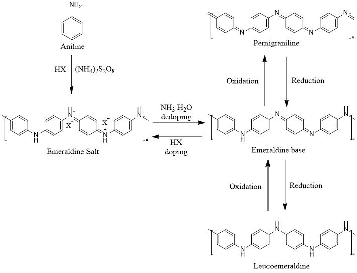 Synthesis routes of polyaniline